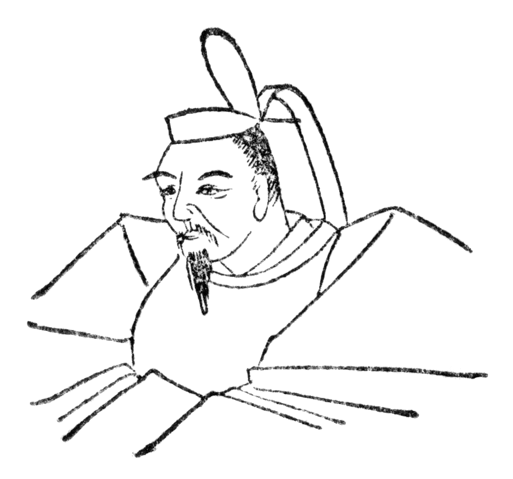 Portrait of Hōjō Sadatoki